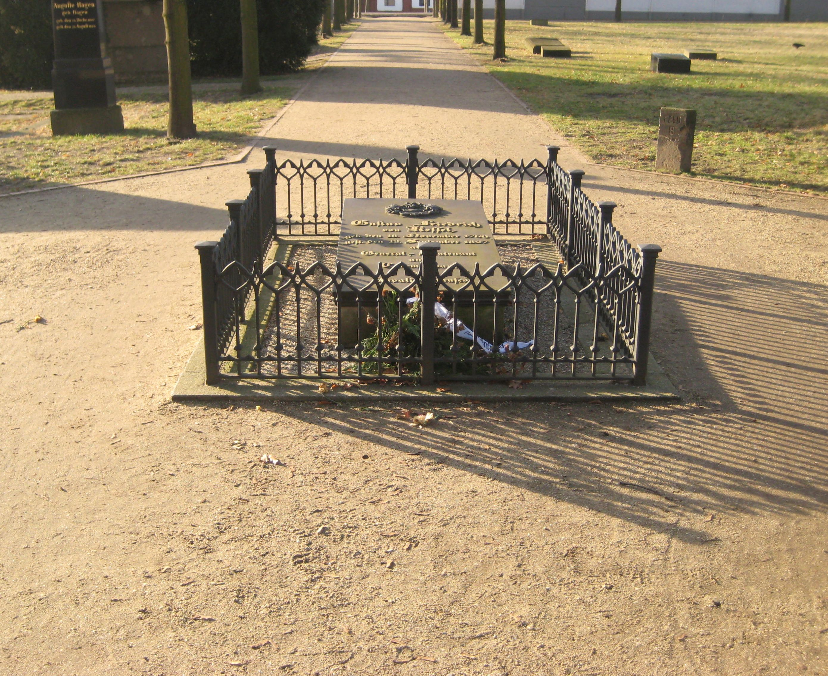 grave of Gustav Friedrich Gottlob von Kessel (1827) on Ivalidenfriedhof cemetery in Berlin